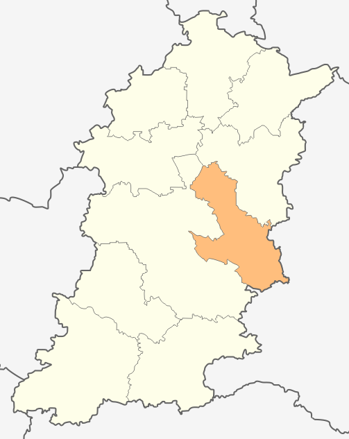 Map of Kaspichan municipality, Shumen Province